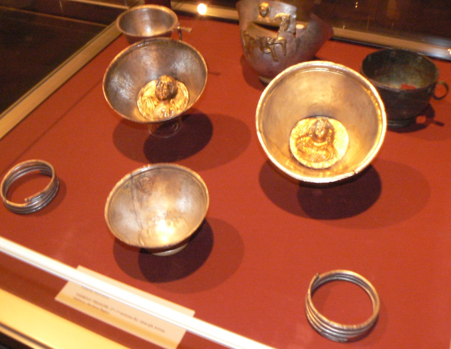 The treasure of village Yakomovo, Montana District, Bulgaria. Exhibits of the National History Museum of Bulgaria